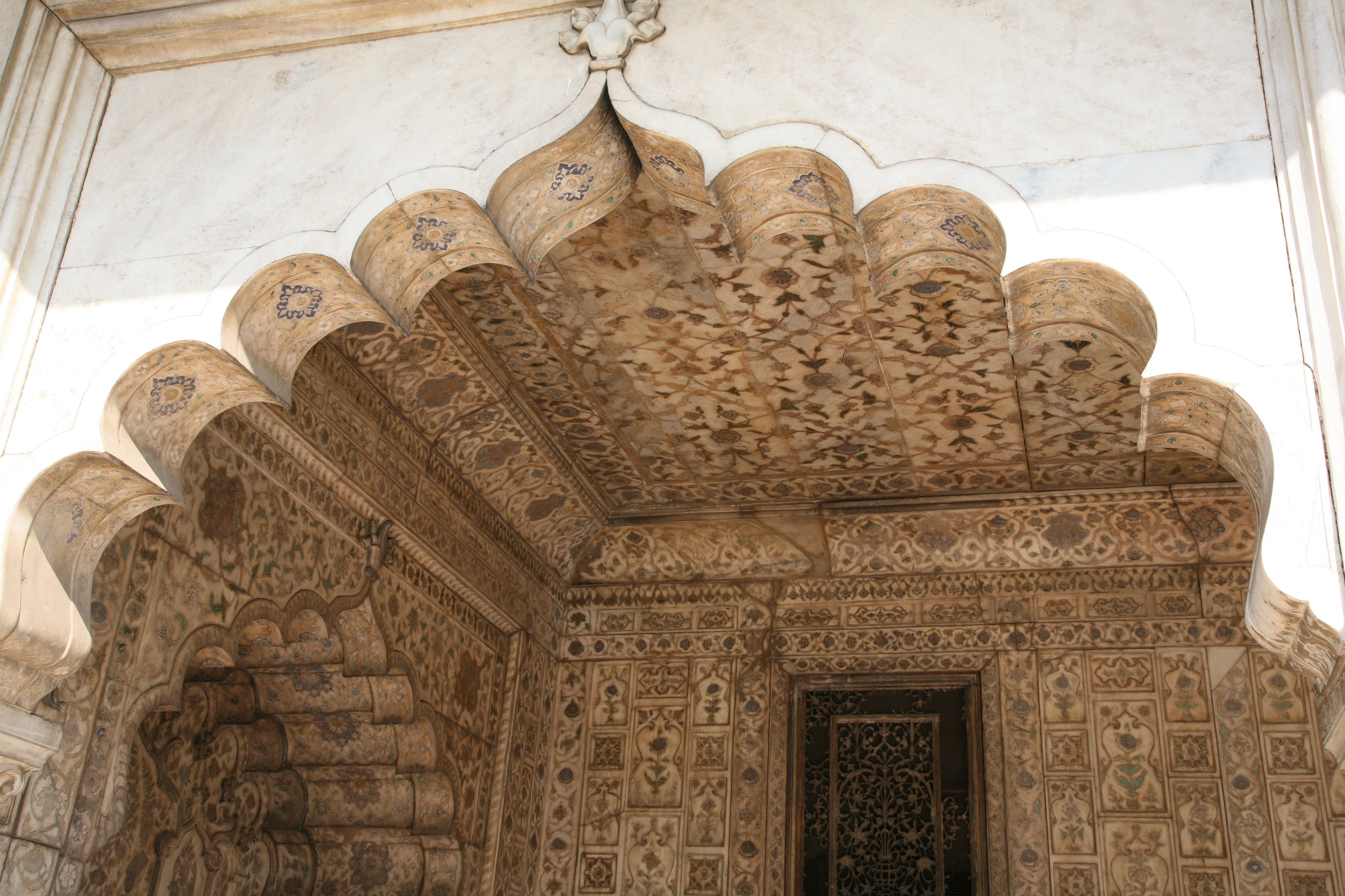 Khas Mahal at the Red Fort, Delhi